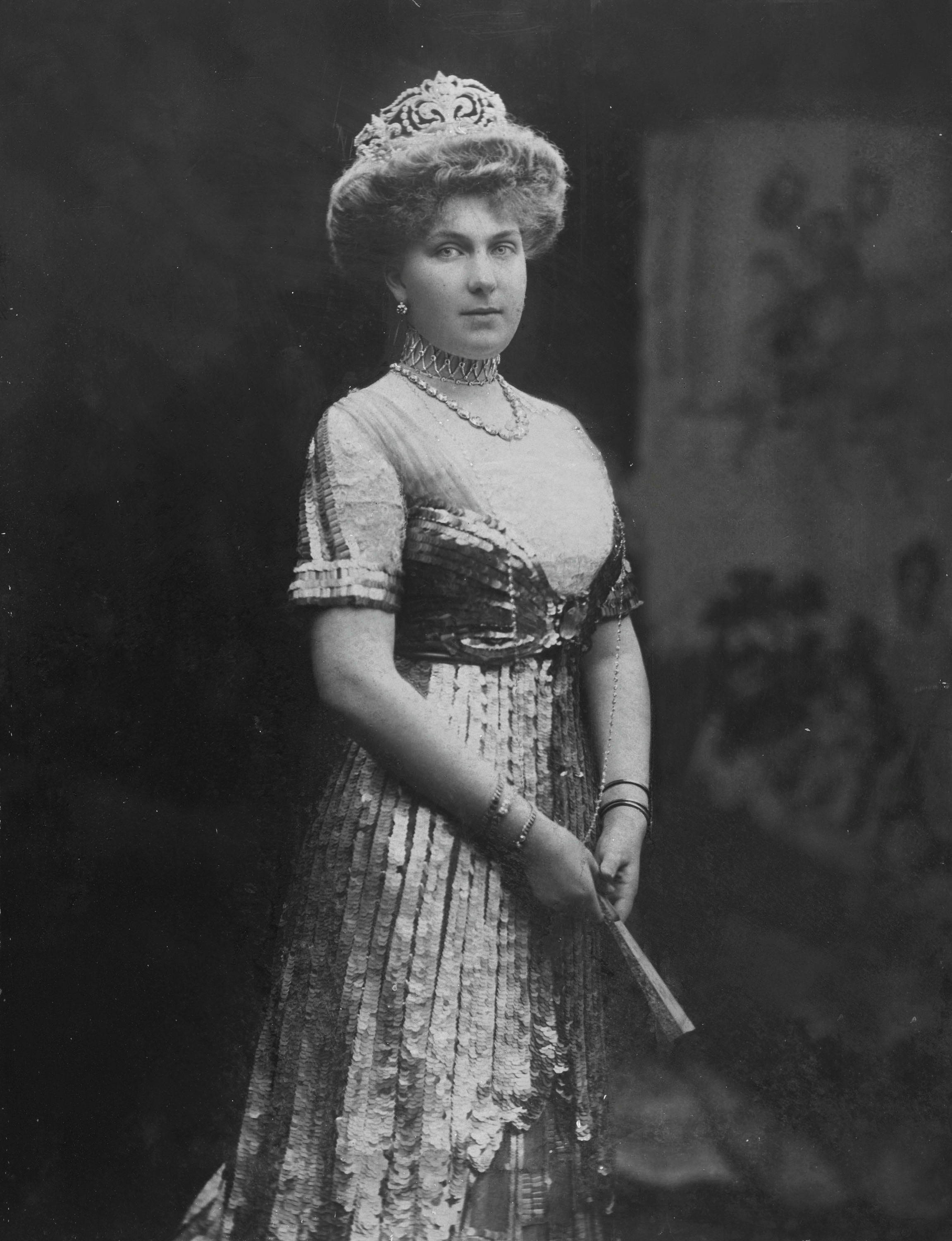 Photographical portrait of the Queen of Spain This is a retouched picture, which means that it has been digitally altered from its original version. Modifications: Small background fixes using Photoshop CS6..